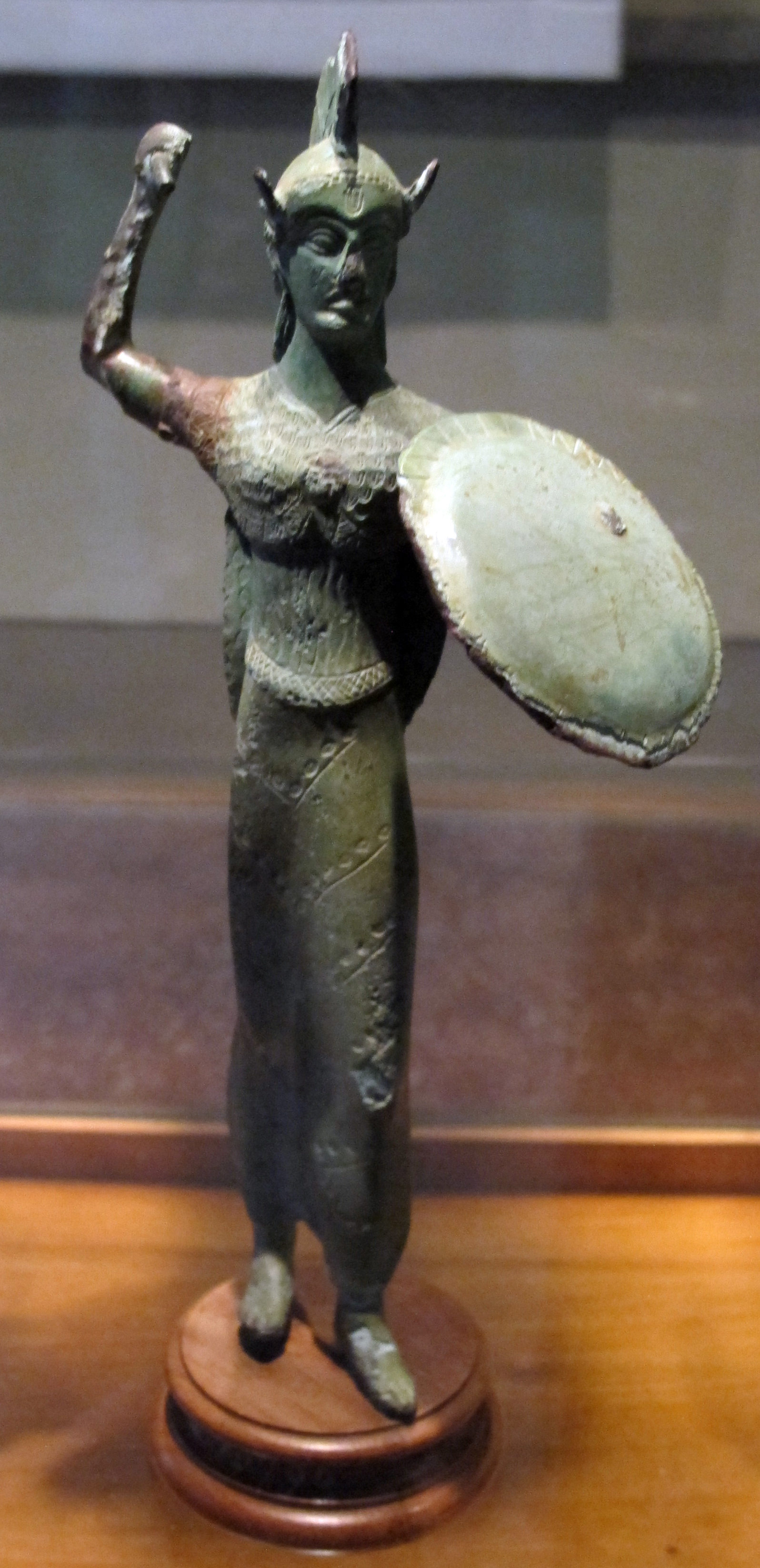 Etruscan bronze statuettes in the Museo archeologico nazionale (Florence)